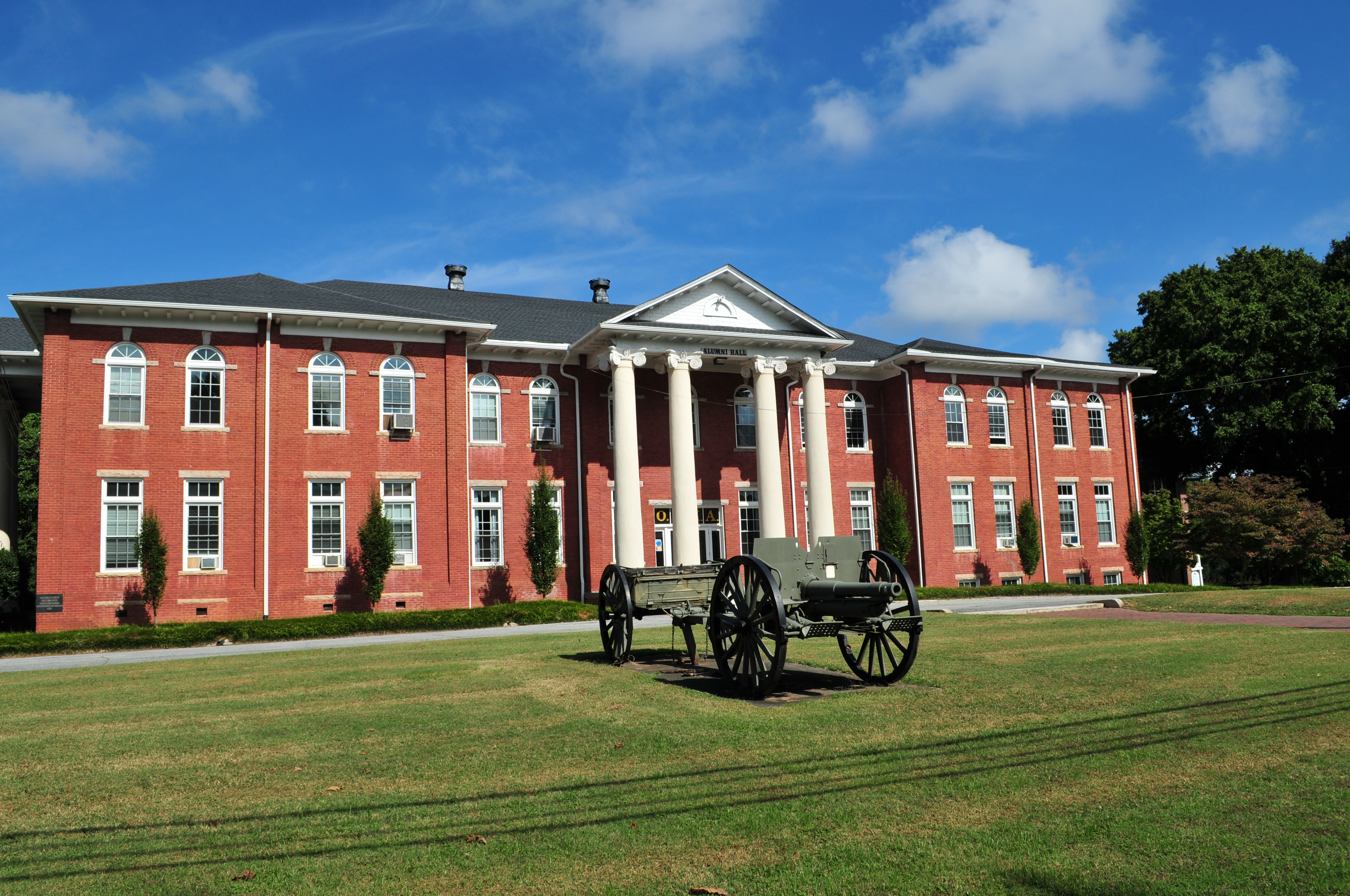 Oak Ridge Military Academy Historic District, NC 150 and NC 68 Oak Ridge